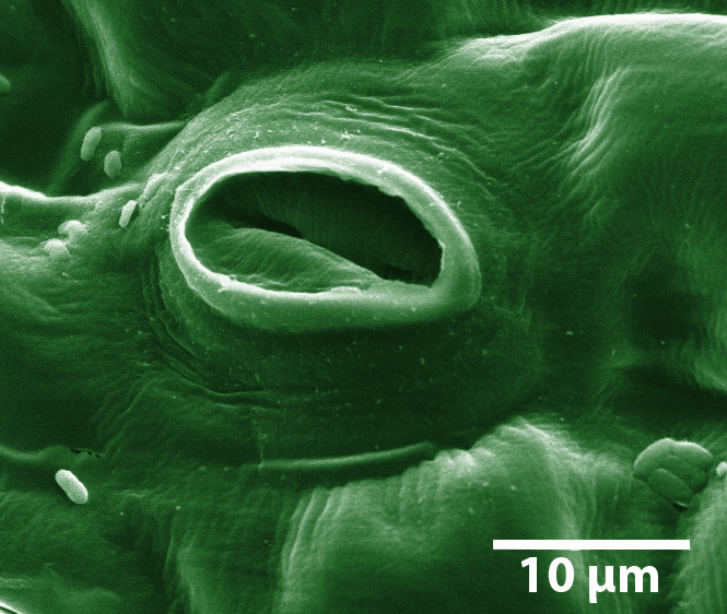 Cropped and scaled image of a tomato leaf stoma, SEM